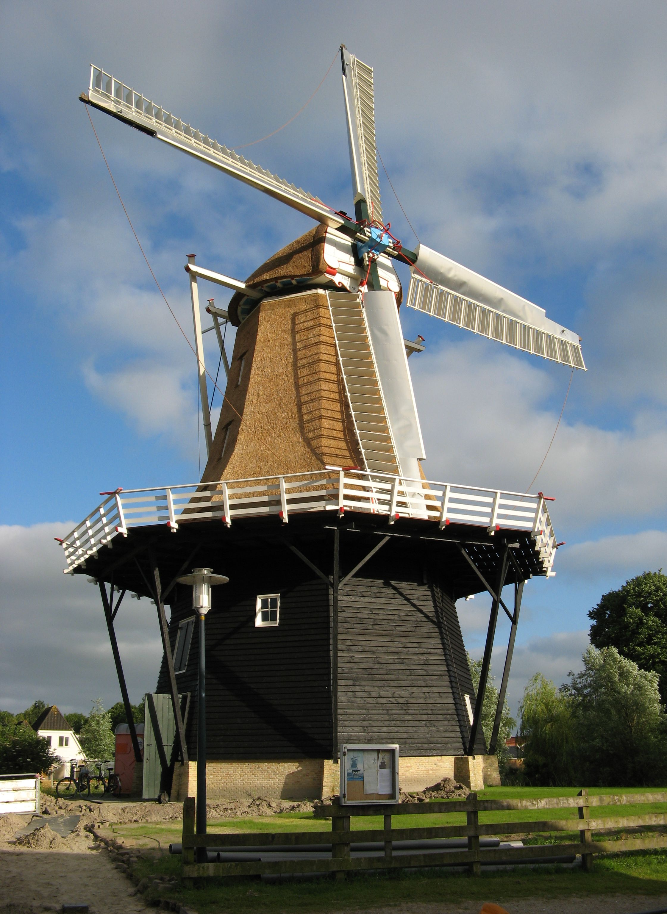 The rebuilt Windlust, Burum, the Netherlands. Almost completed.